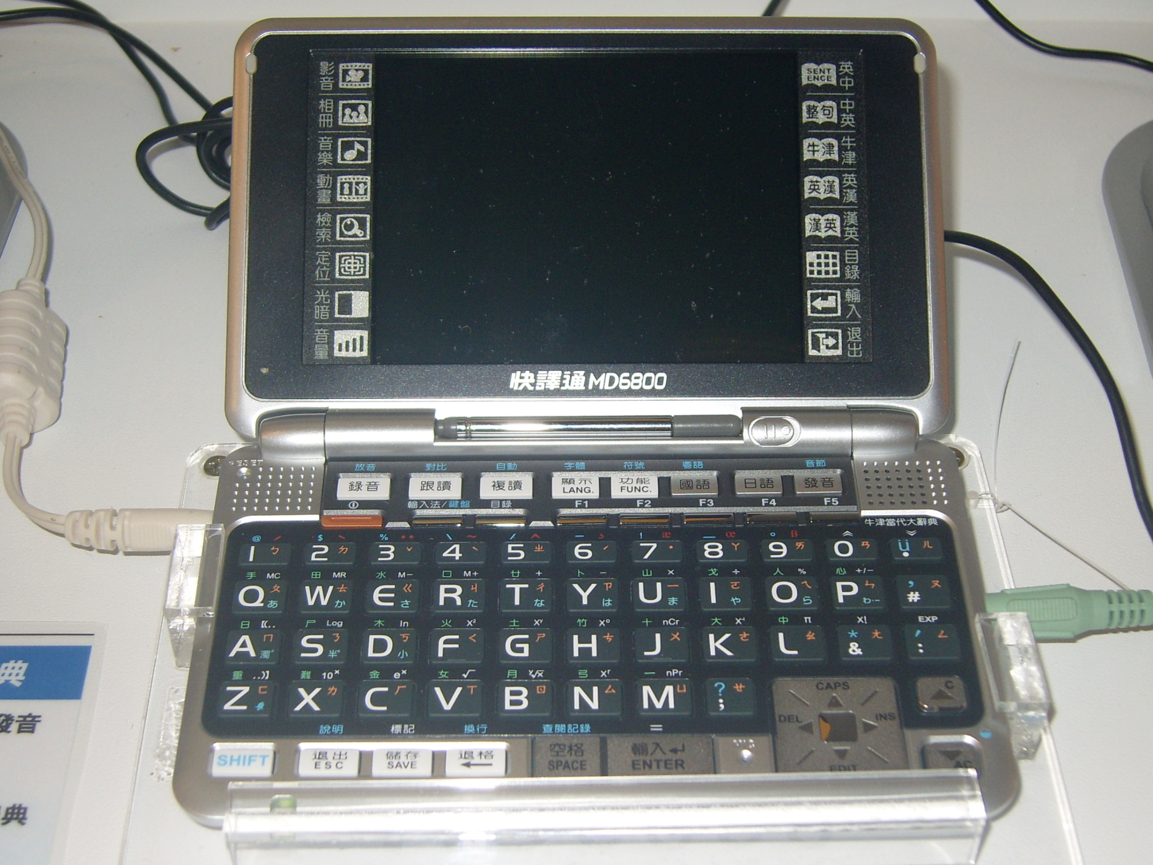 2008 Taipei IT Month - Instant Dictionary Corp: MD6800.